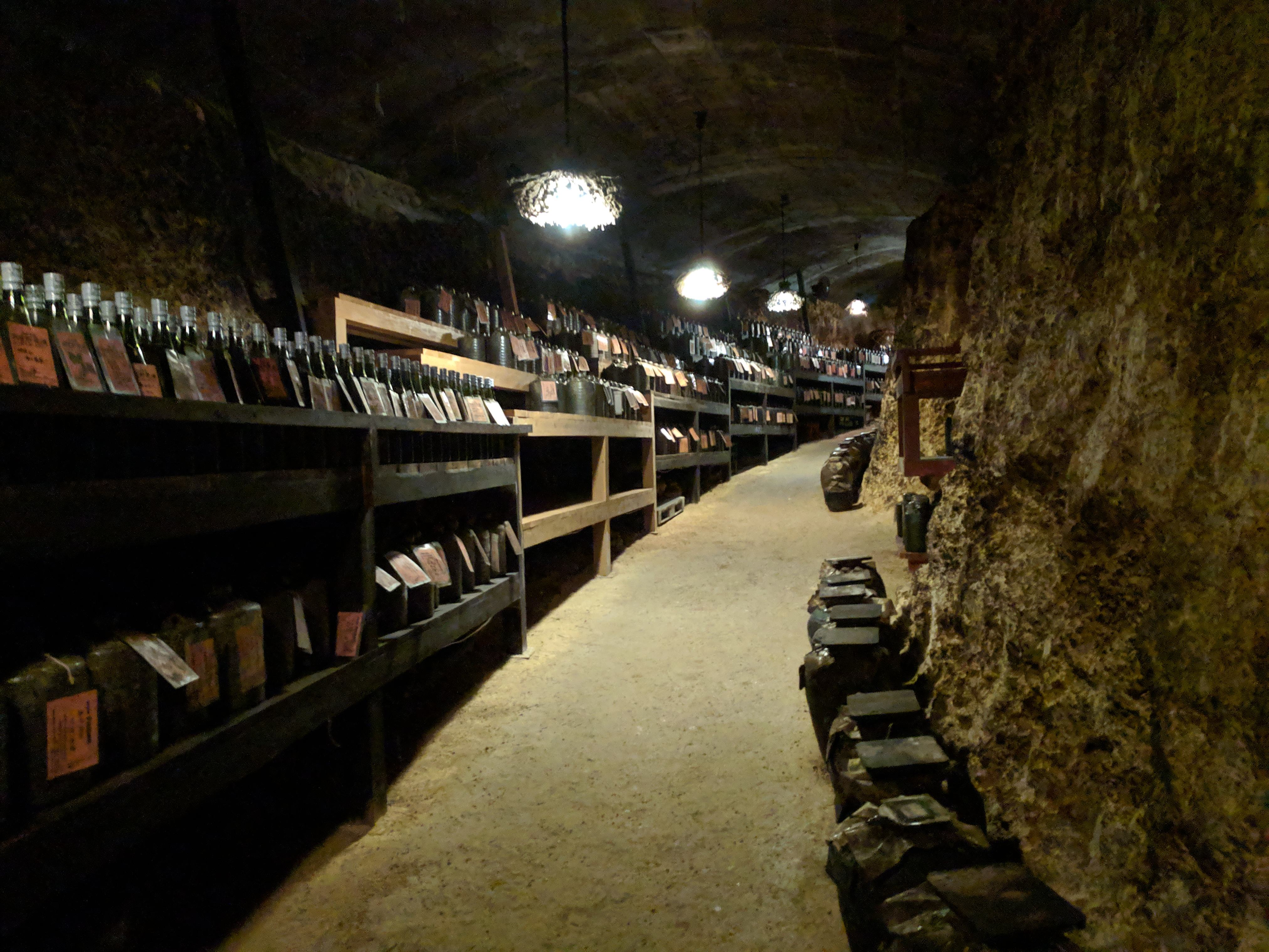 Already purchased Awamori maturing in the purposely constructed cellar at Taragawa distillery, Miyakojima, Okinawa.